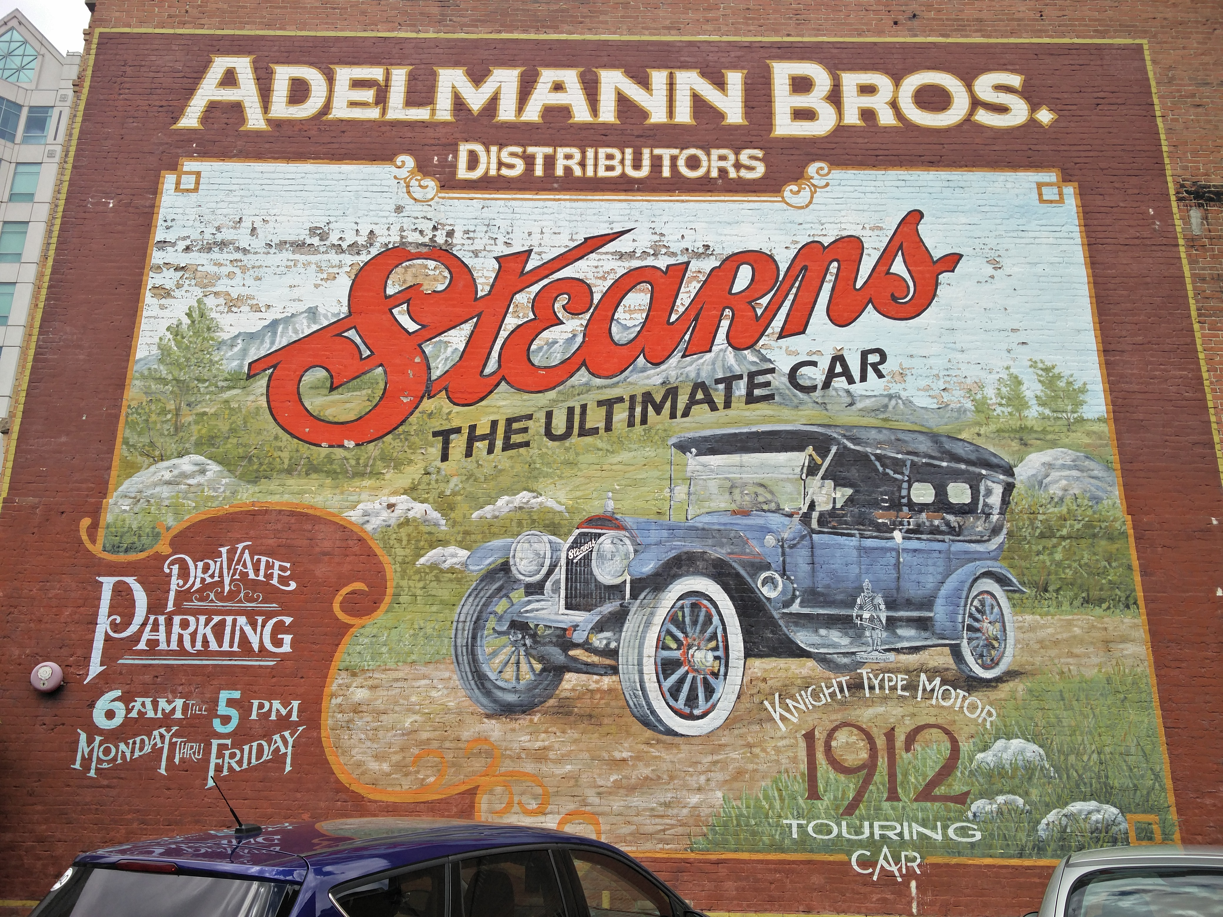 A replicated 1912 Stearns advertisement on the Adelmann Bldg. in downtown Boise on N Capitol Blvd. and E Idaho St.